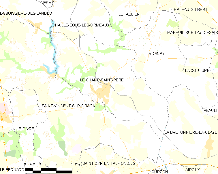 Map of French municipality Le Champ-Saint-Père